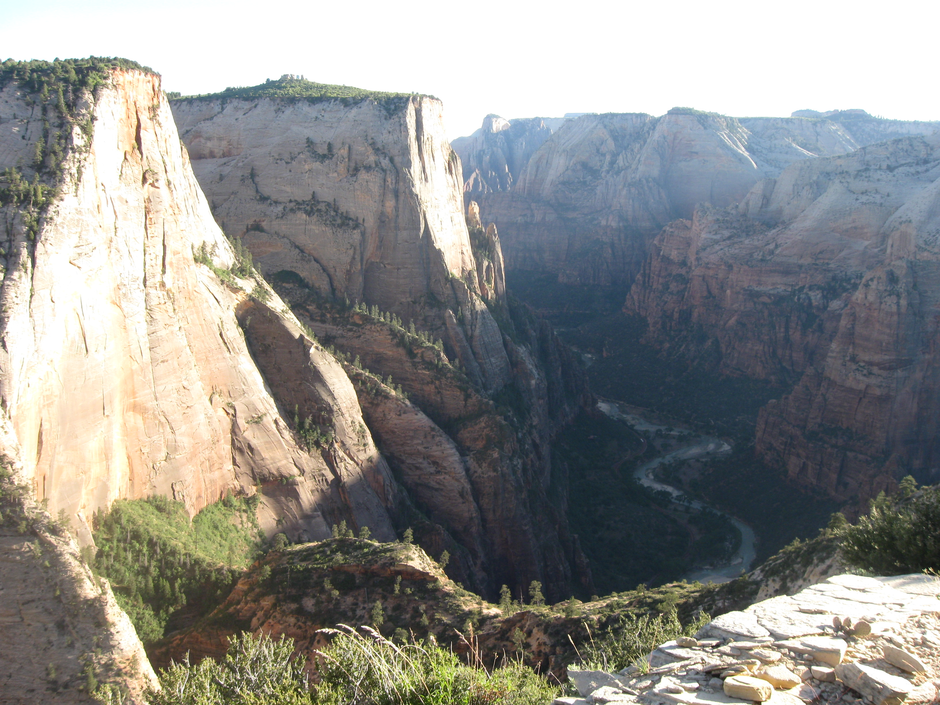 Zion Canyon photo taken from the trail to Observation Point.